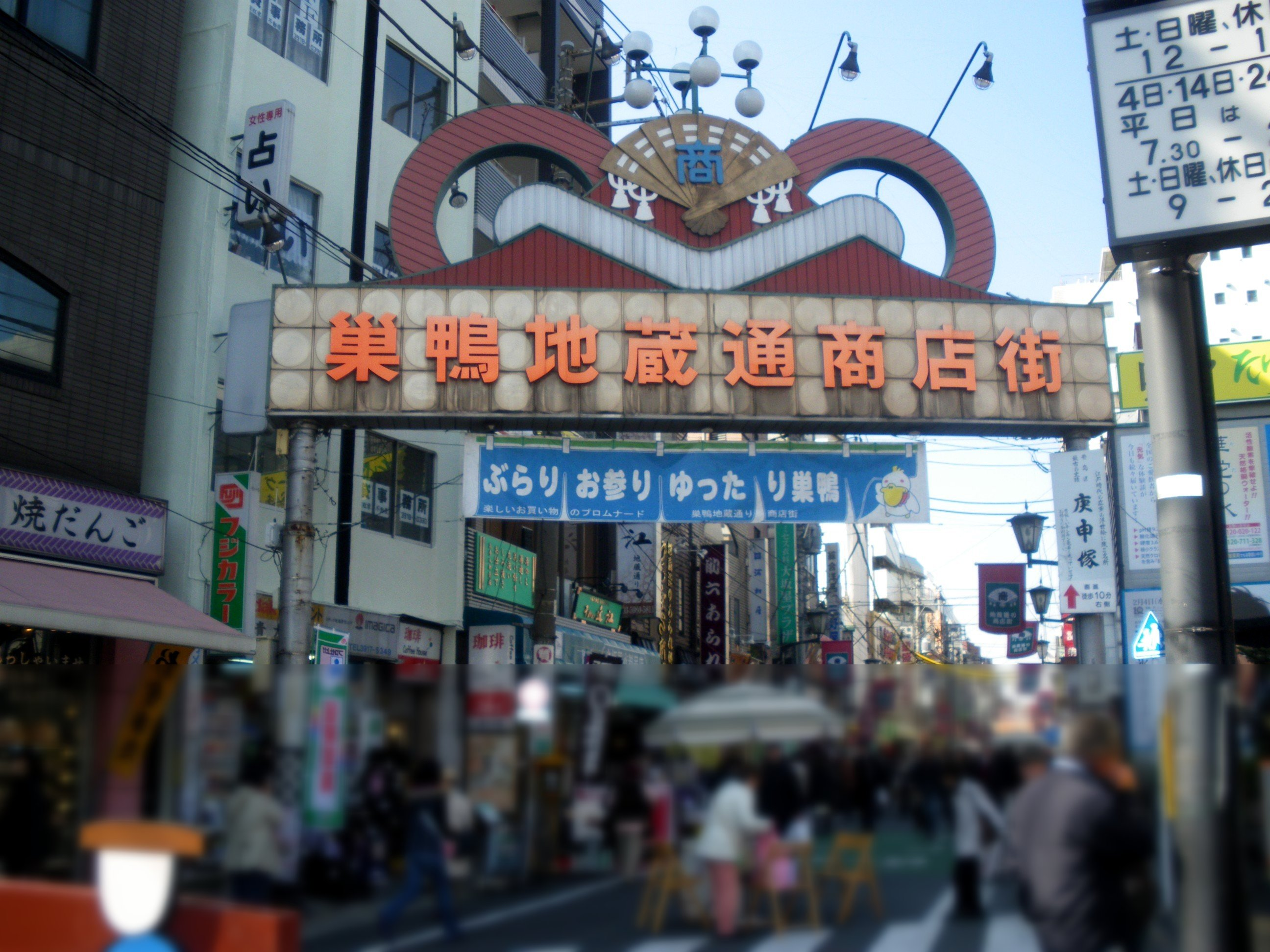 A photo of Sugamo Jizou Dori Shopping Center,known as "Harajuku of old ladies."